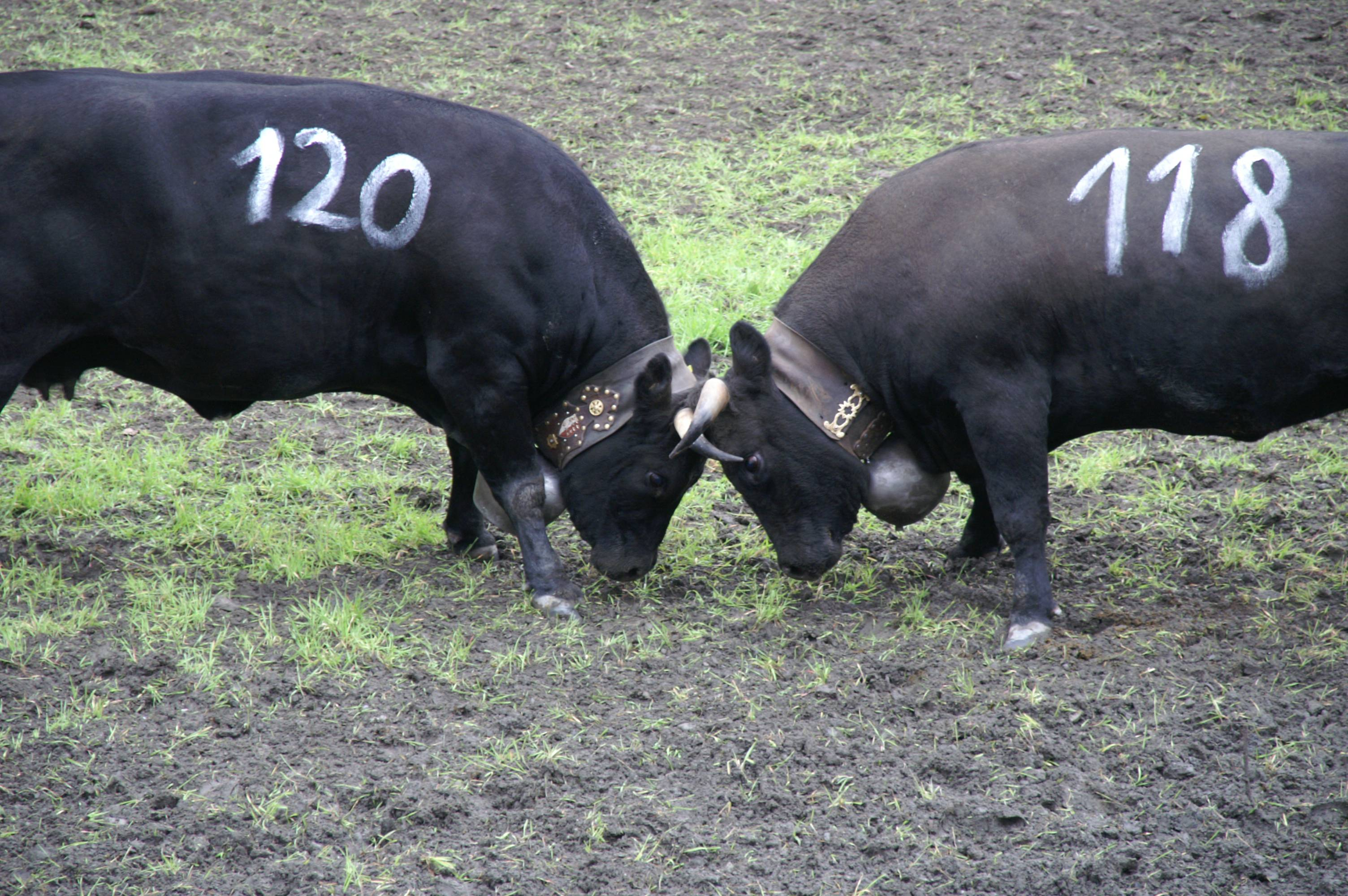 Picture taken at the « Foire du Valais » - Martigny / Switzerland